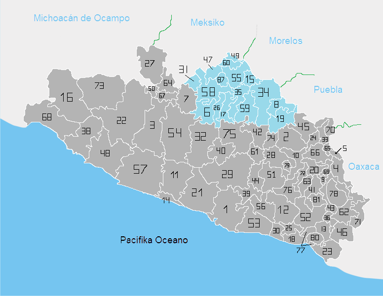 locator map of the region "Norte" in the mexican state Guerrero